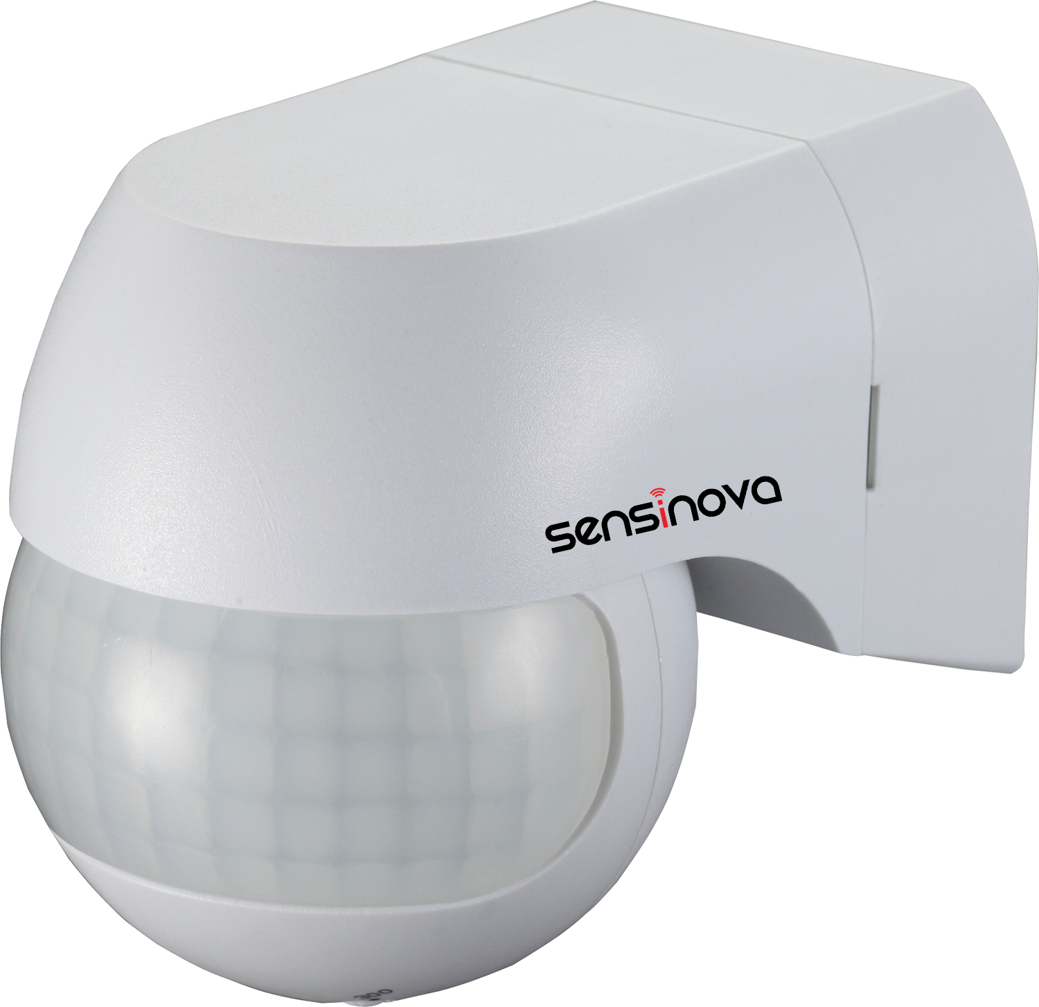 This is human presence detector sensor and protect your home from theft. It is also use as Energy-Electricity Saving Sensor. You can use PIR Sensor in home, vehicle parking, office etc...